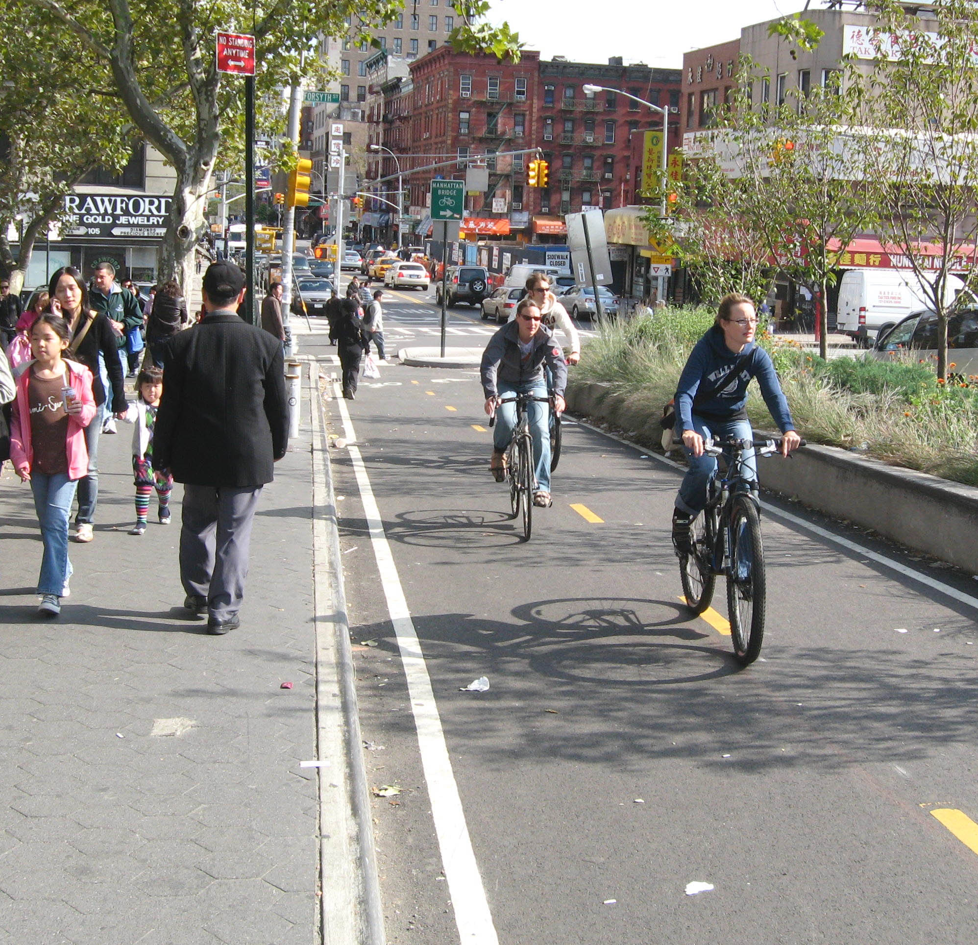 Looking southeast for WTM on a hazy midday down the bike path that climbs Canal Street (Manhattan) from Forsyth Street (Manhattan) and Manhattan Bridge. This photo is of Wikis Take Manhattan goal code R6, Bike Lane, physically separated.